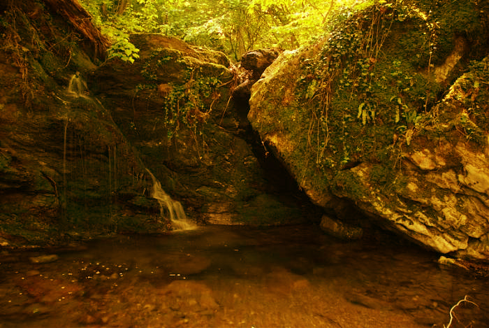 12Indipesah Strandzha BG